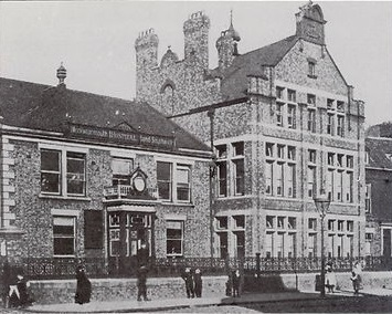 Photograph of the old Monkwearmouth and Southwick Hospital on Roker Avenue